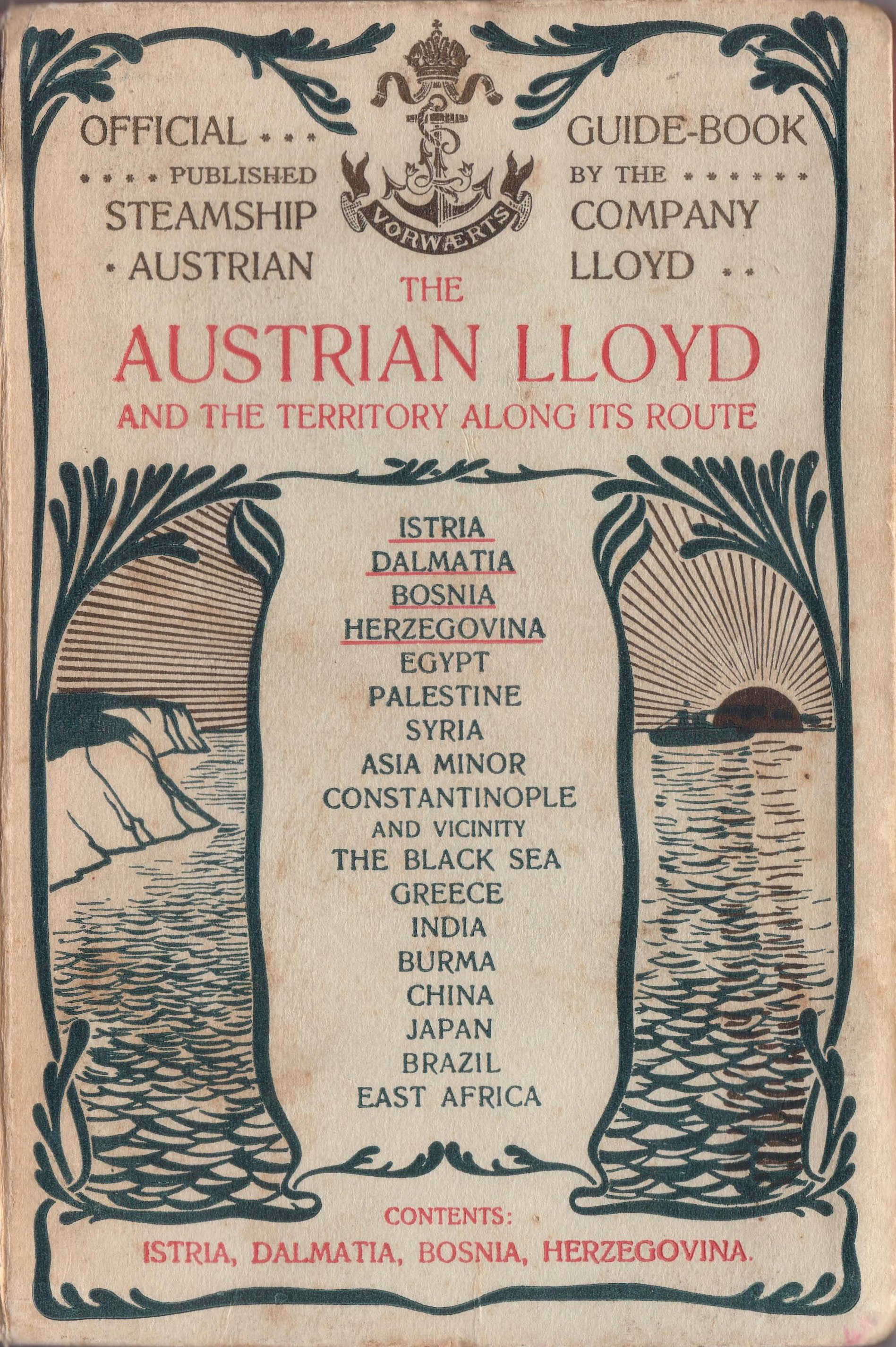 Cover of the book "Austrian Lloyd Istria Guide-Book 1901